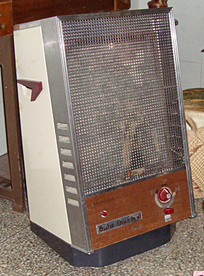 portable gas heater, 1970s. Portugal.